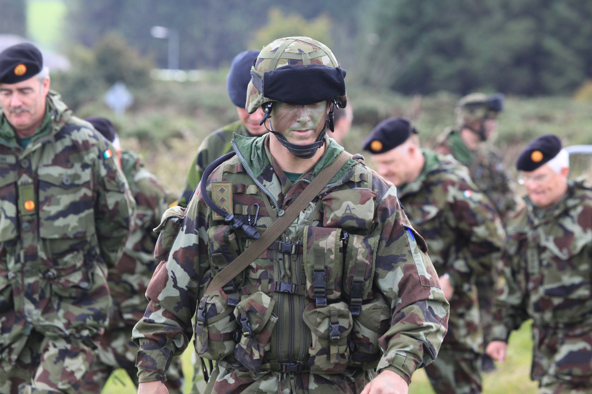 Nordic Battle Group ISTAR Training recently took place in Kilworth, including a visit from the Nordic Battle Group Force Cmdr and ISTAR Cmdr from Sweden